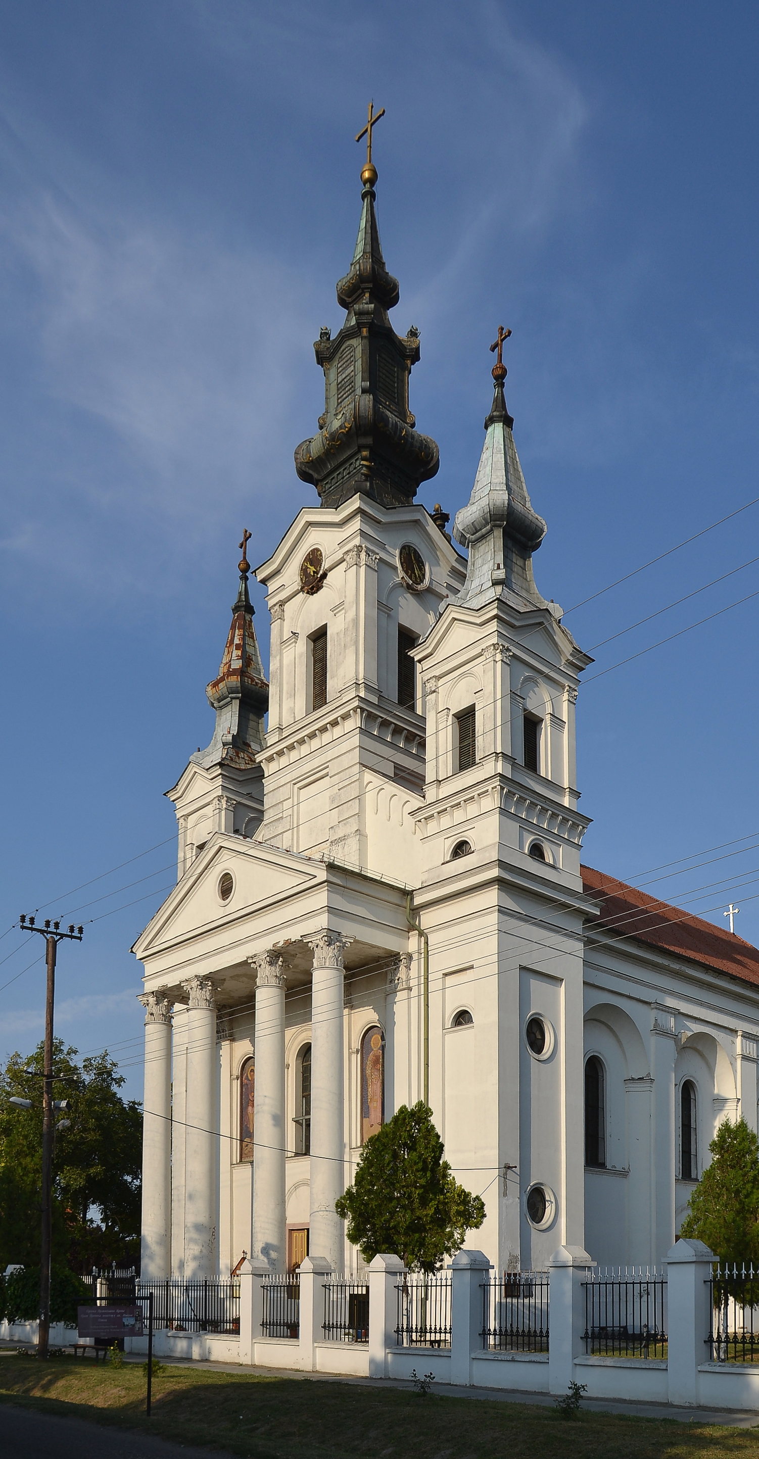 Sivac (Szivác, Siwatz), Vojvodina - Orthodox church